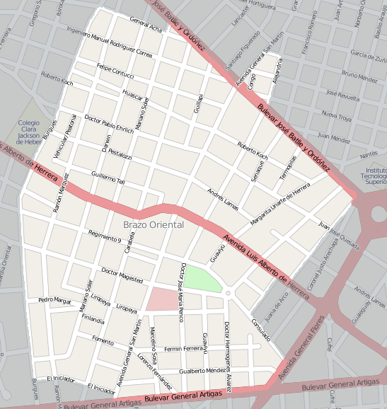 Street map of Brazo Oriental, Montevideo, exported from OpenStreetMap. I added shading to delimit the barrio. This map may be incomplete, and may contain errors. Don't rely solely on it for navigation.